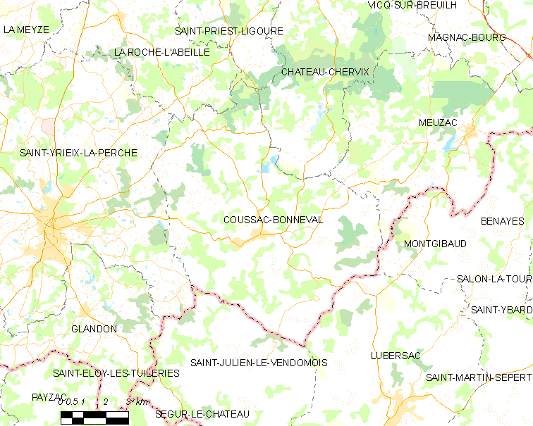 Map of French municipality Coussac-Bonneval